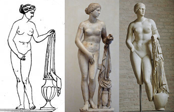 Variants of the Cnidus Aphrodite